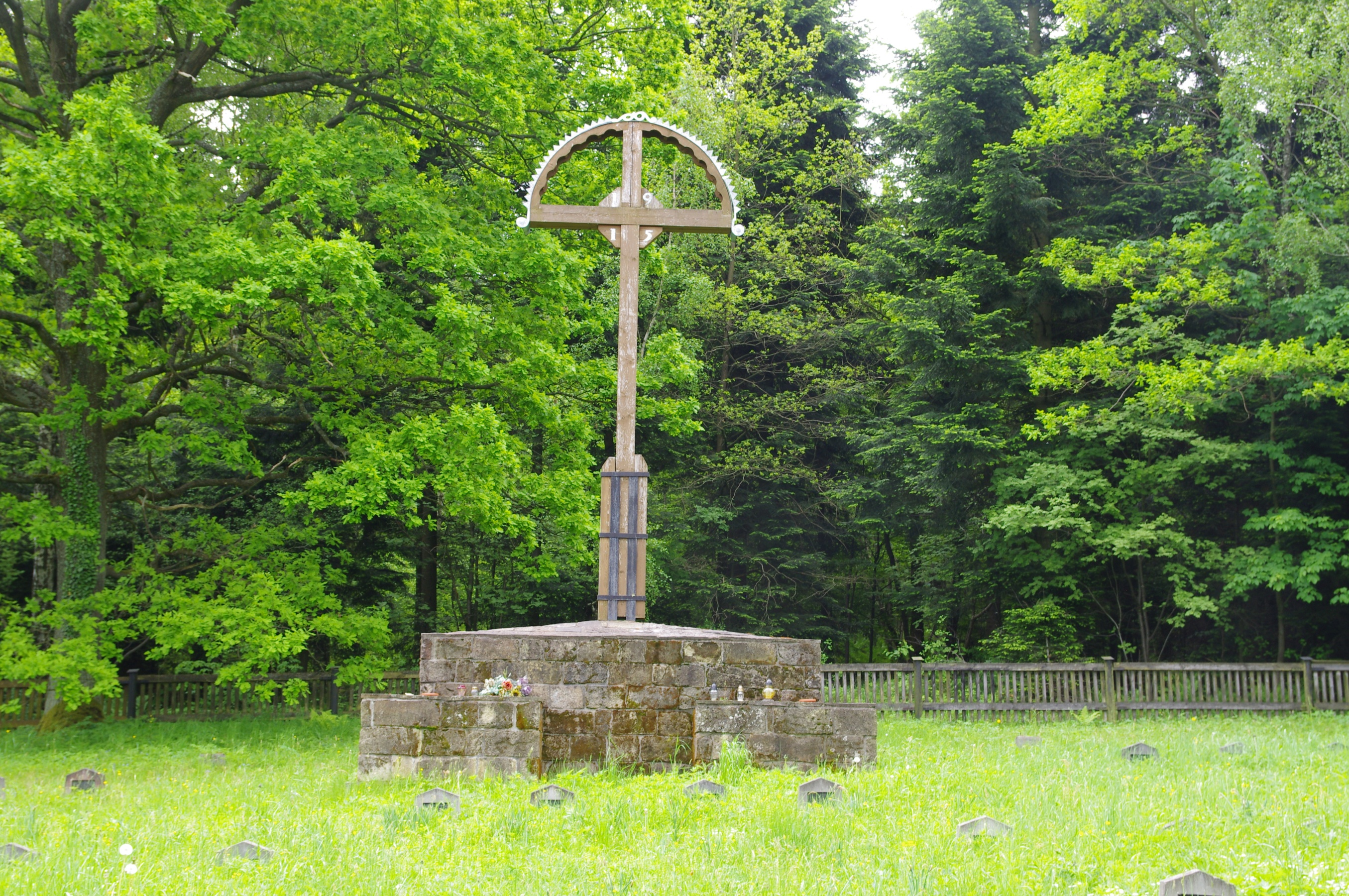 World War I Cemetery nr 124 in Mszanka